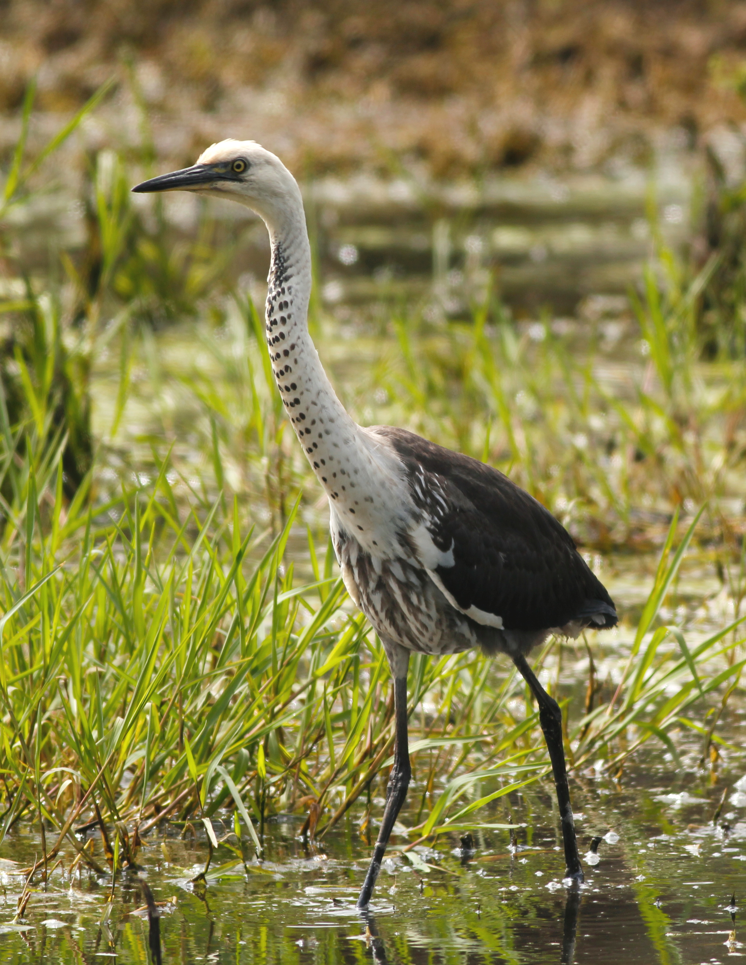 A White-necked Heron (also known as the Pacific Heron) in Edithvale Wetland, Melbourne, Australia.